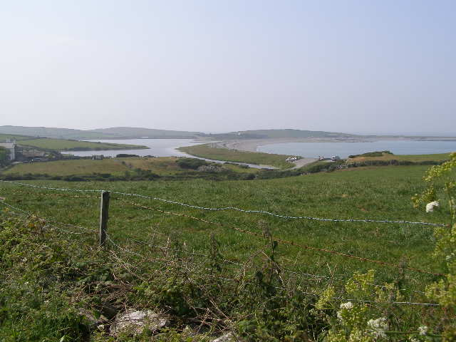 Cemlyn Bay, Causeway and Lagoon